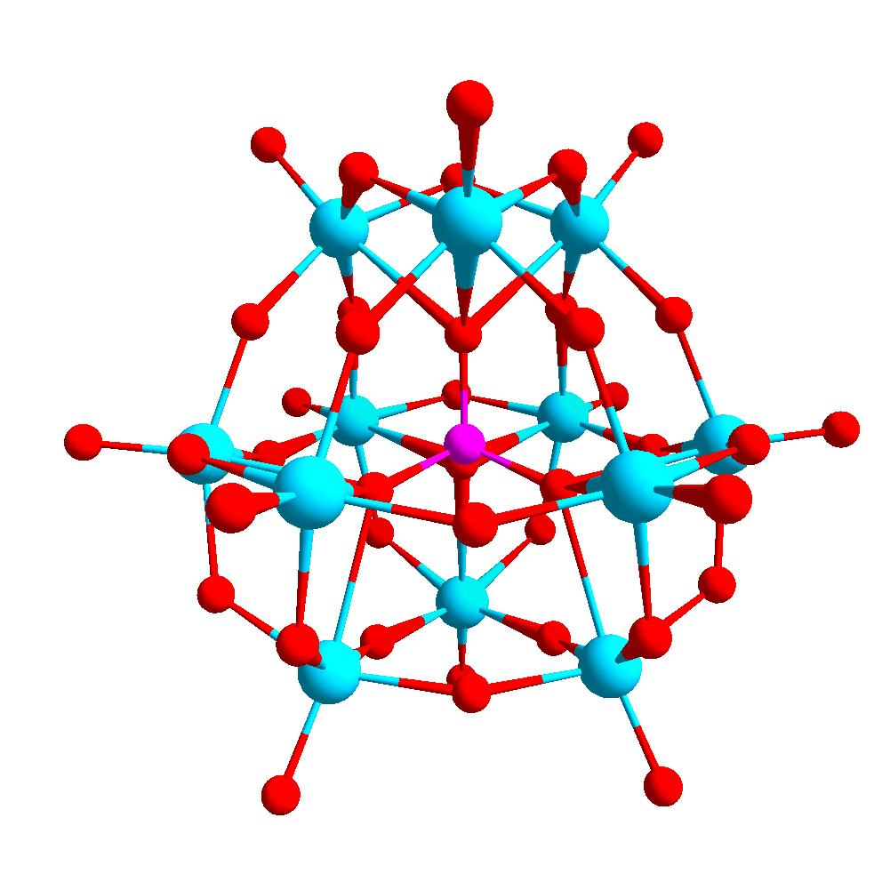 Ball and stick structure of the alpha-Keggin polyoxometalate